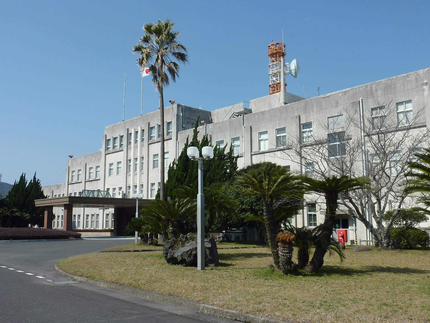 JMSDF Kanoya Air Base - Headquarters of Fleet Air Wing 1 (Kanoya City, Kagoshima Prefecture, Japan)